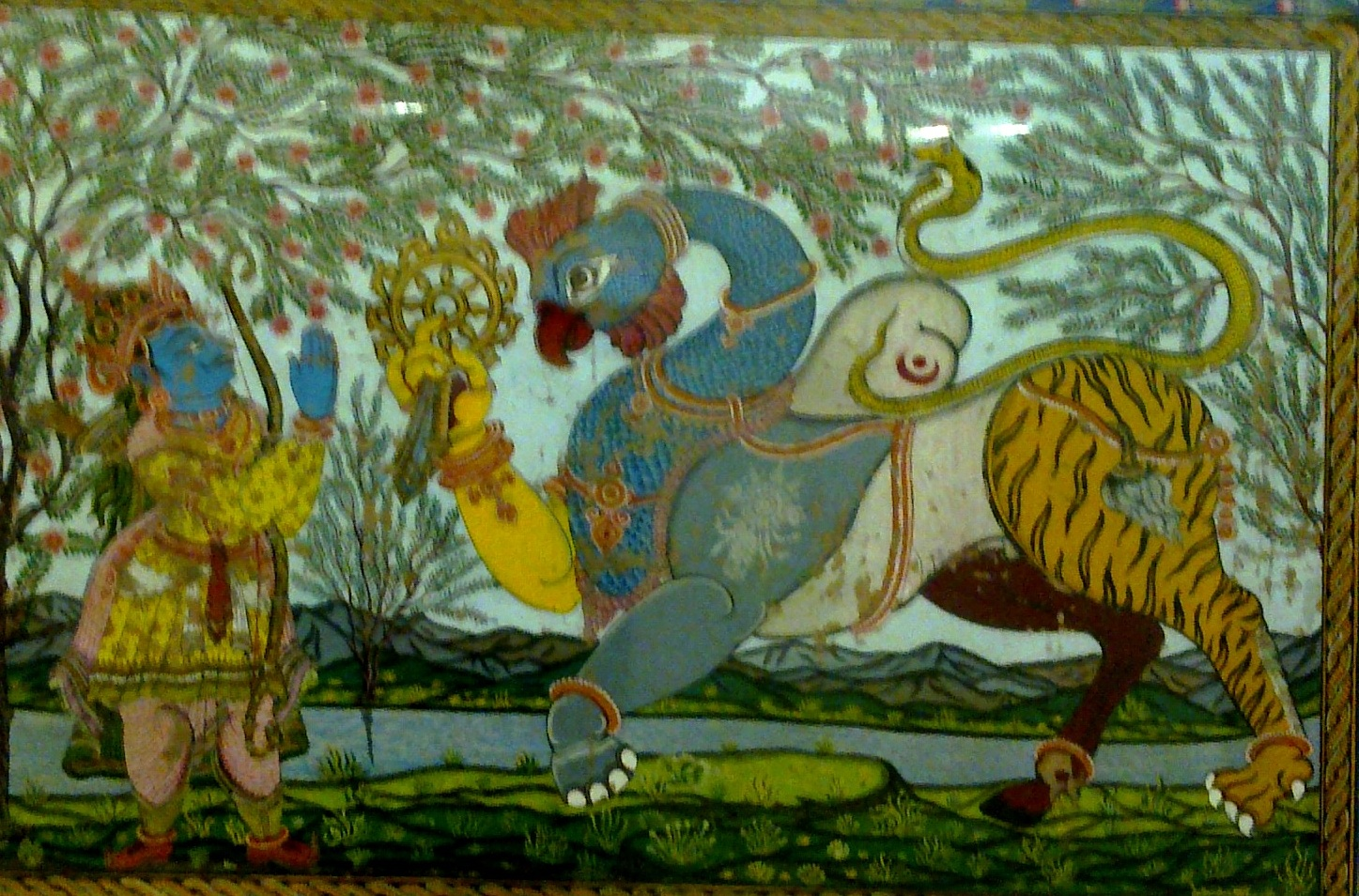 In the Hindu epic Mahabharata, Navagunjara is a creature composed of nine different animals. The animal is a common motif in the Pata-Chitra style of painting, of the Indian state of Odisha. The beast is considered a form of the Hindu god Vishnu, or of Krishna, who is considered an Avatar (incarnation) of Vishnu. (Wikipedia) Somehow resembling Basilisk. 8 Navagunjaras The Nila Chakra disc atop the Jagannath Temple has eight Navagunjaras carved on the outer circumference, with all facing towards the flagpost above. Odisha State Museum; Bhubaneshwar.